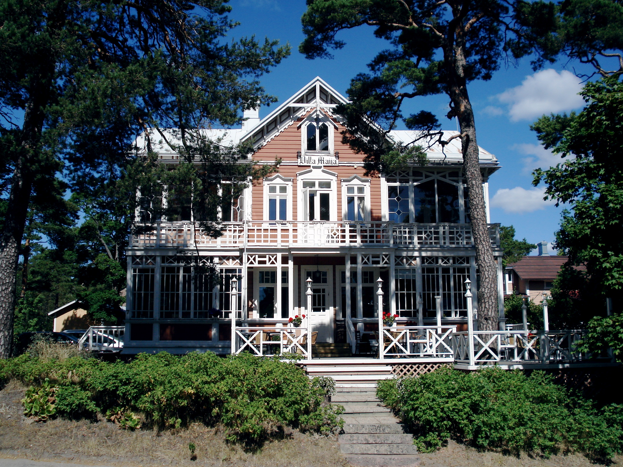 Hotelli Villa Maija in Hanko. Photo taken on July 15, 2006. Source: Photo by me, User:Balcer.